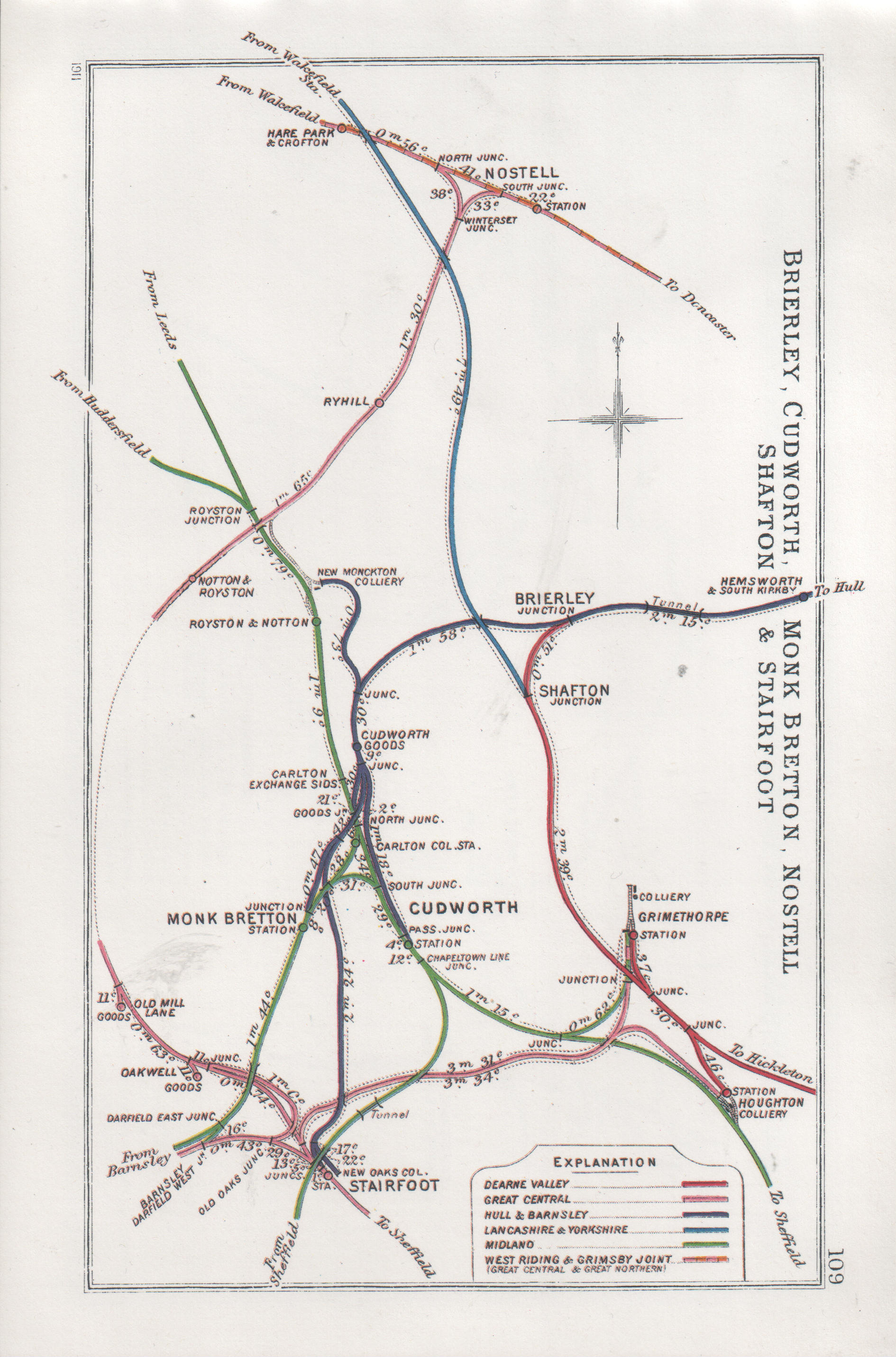 Pre Grouping railway junction around Brierley, Cudworth, Monk Bretton, Nostell, Shafton & Stairfoot